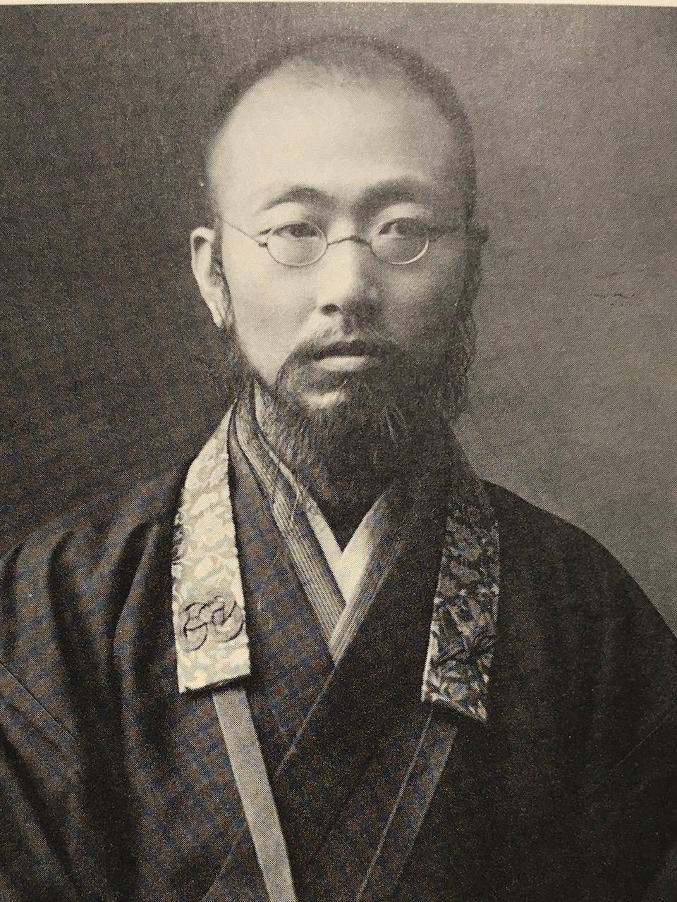 Date unknown, Photographer unknown